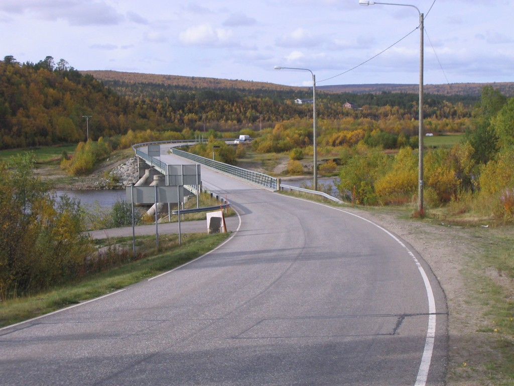 Bridge over Inarijoki (Northern Sami: Anárjohka) -river (and also national border between Finland and Norway) in Karigasniemi village, Utsjoki municipality, Finland.